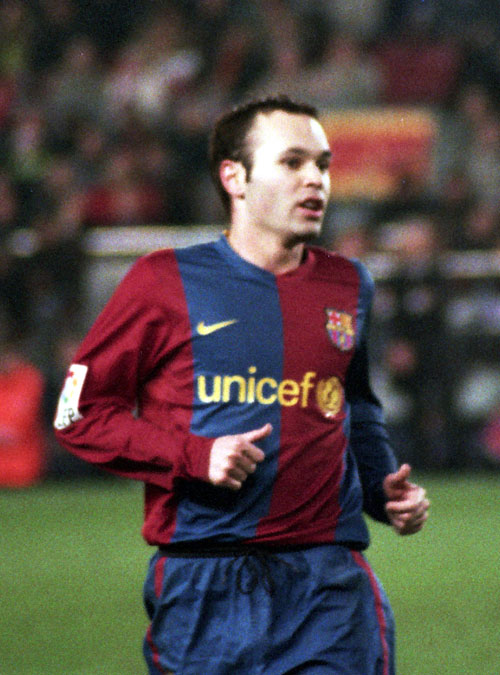 Andrés Iniesta, Futbol Club Barcelona's player, during the match FC Barcelona-Atlético de Madrid.